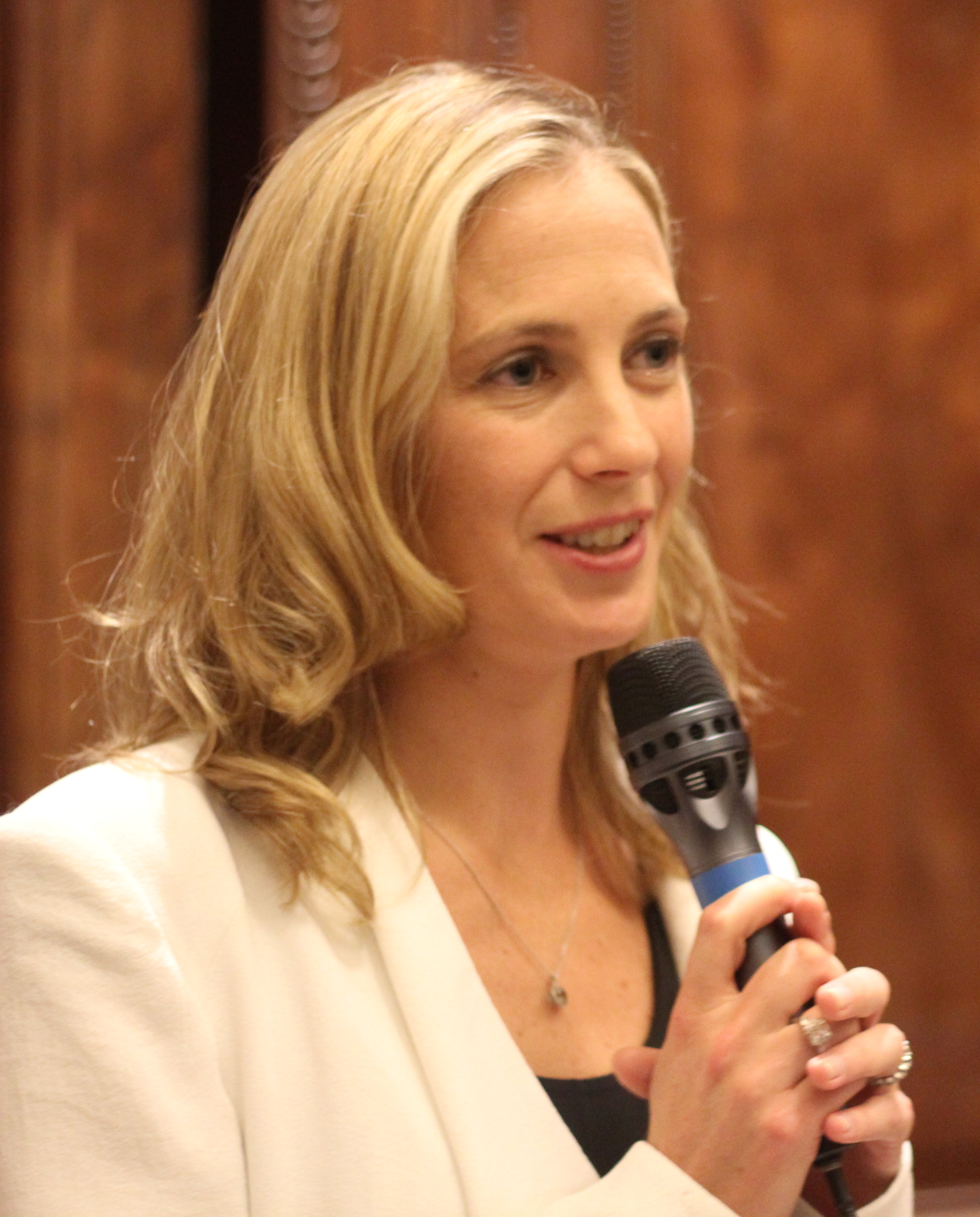 Lauren Weisberger